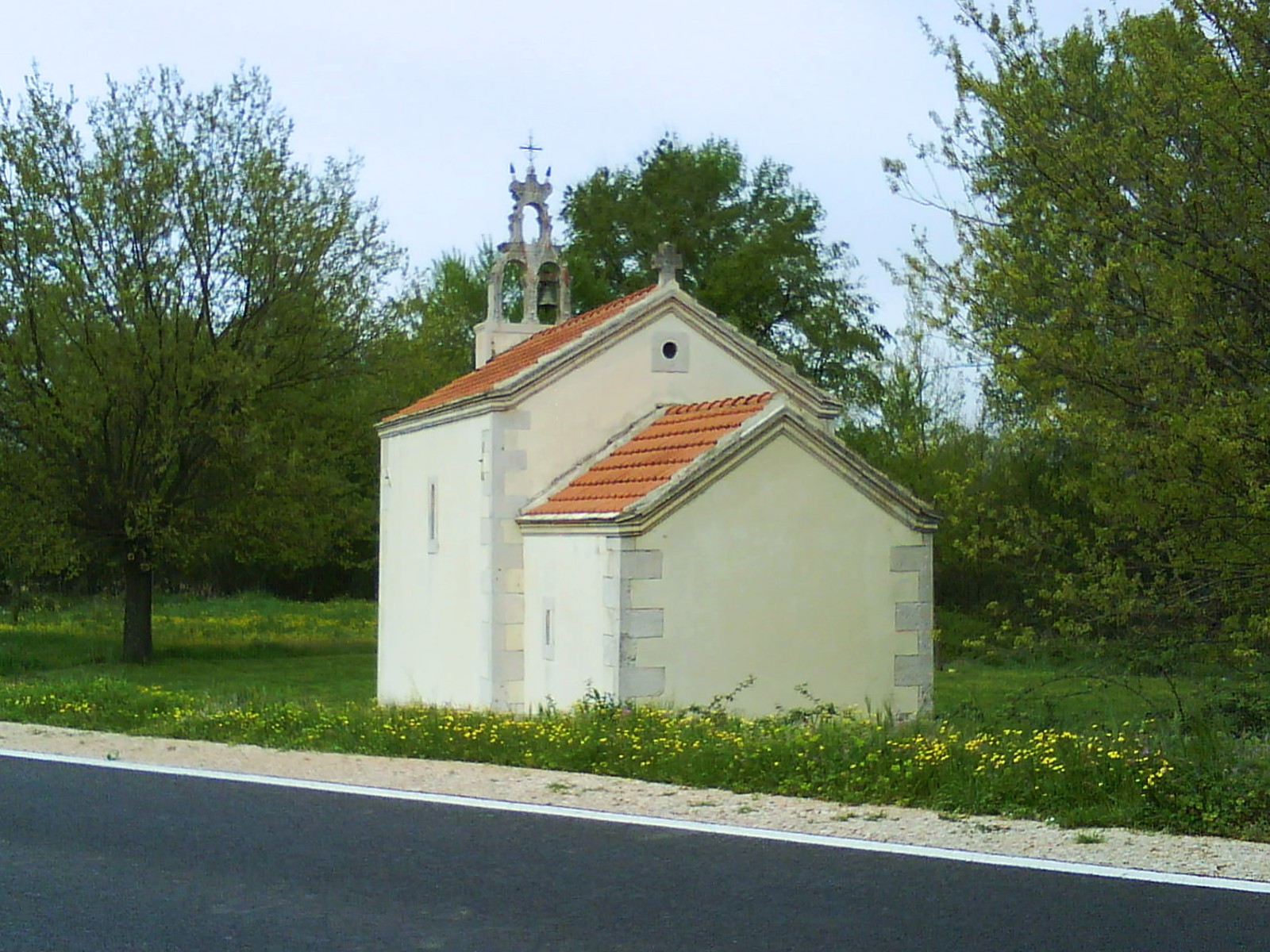 Church at Doljani boarder crossing ,municipality of Čapljina